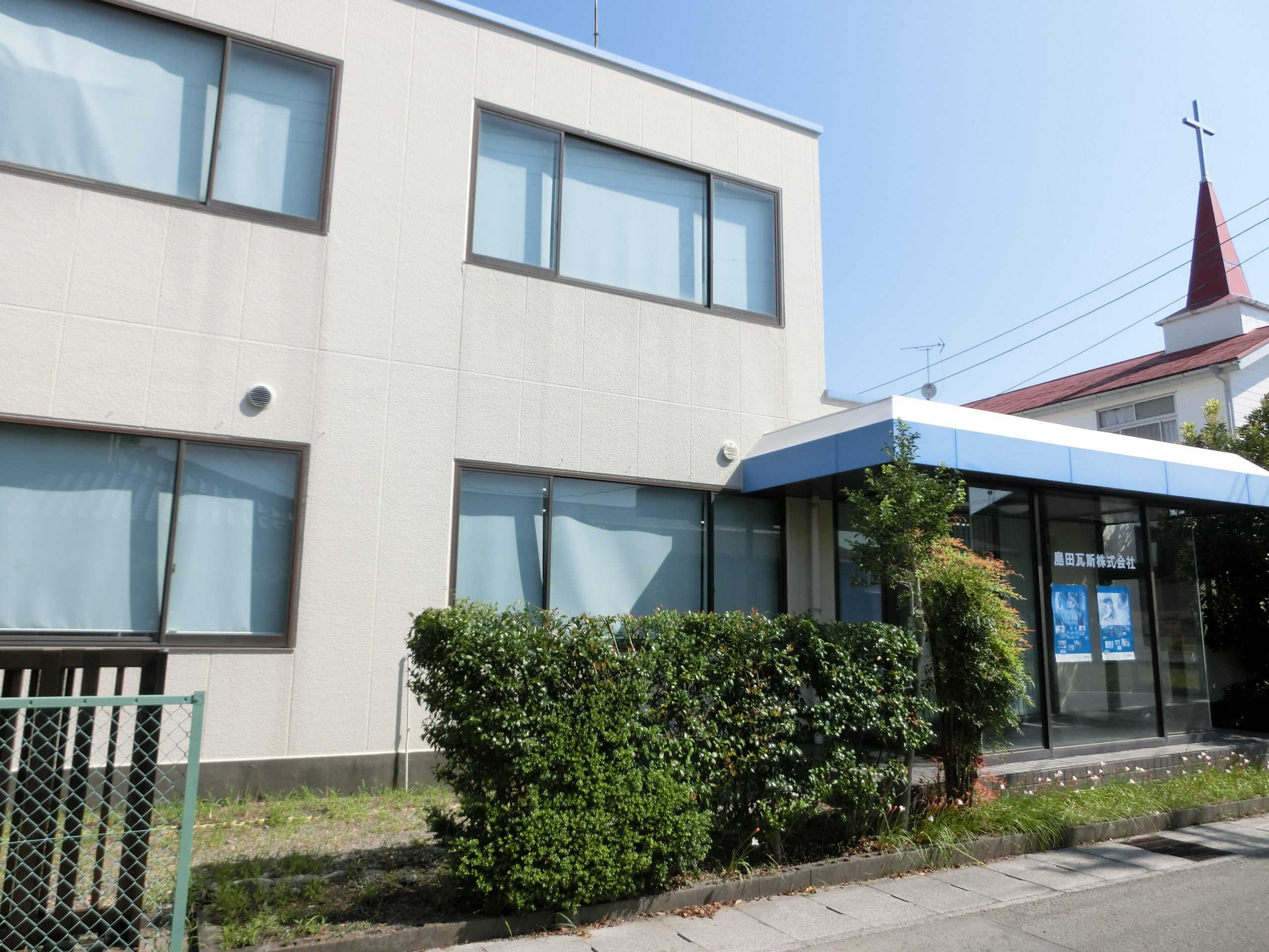 Shimada Gas Head Office